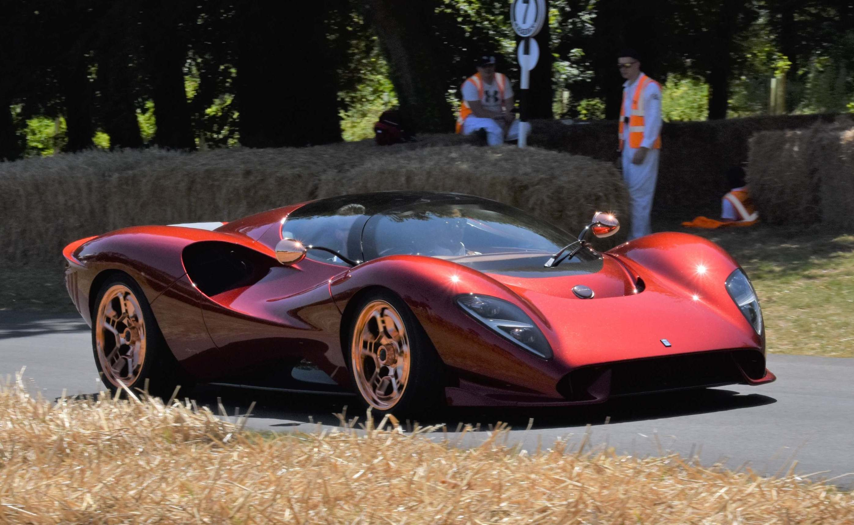 The De Tomaso P72 featuring at the Goodwood Festival of Speed 2019